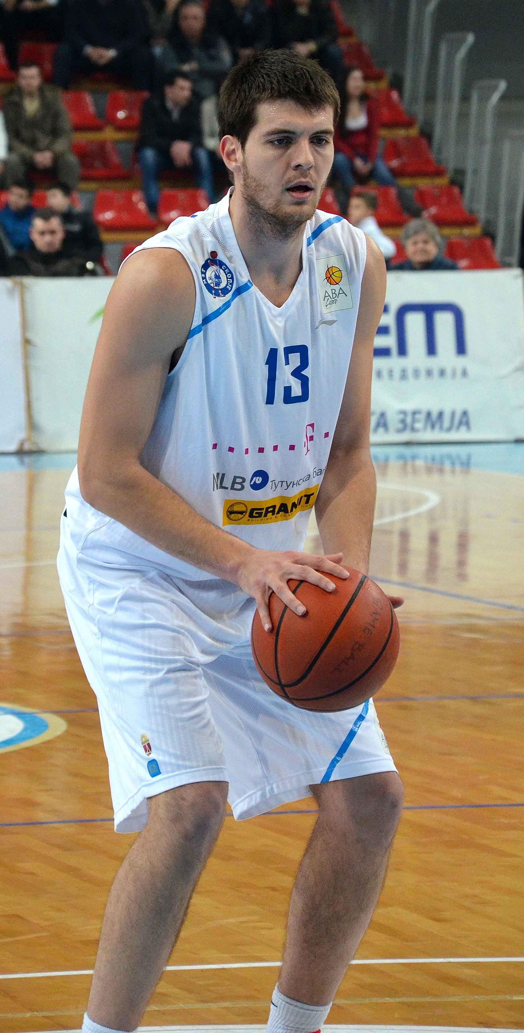 кироникол